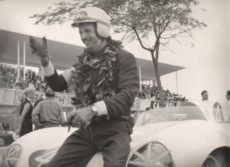 Winner of the 1960 Macau GP (My father).